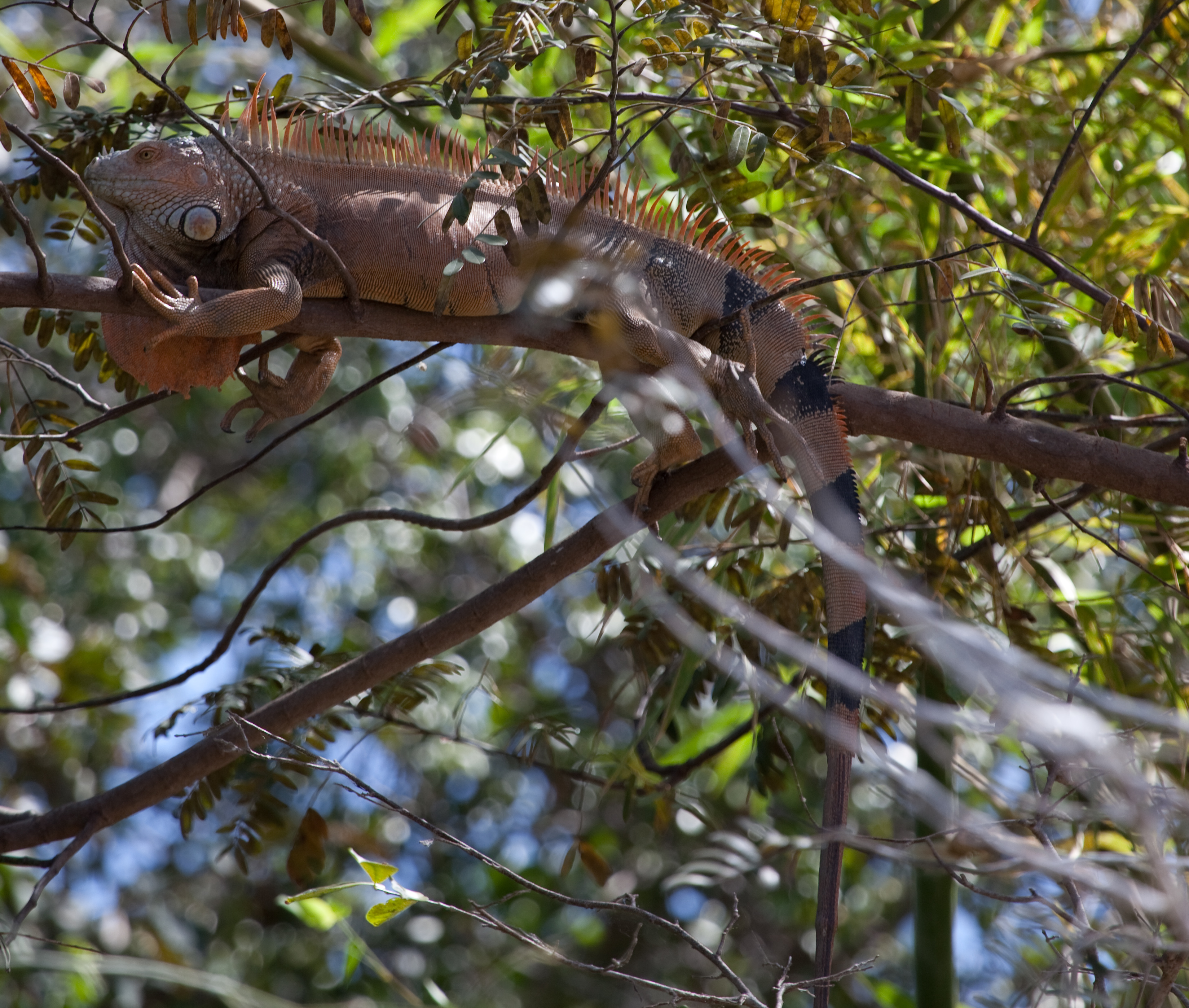 A male green iguana (also known as the common iguana) up a tree in Palo Verde National Park, Costa Rica.